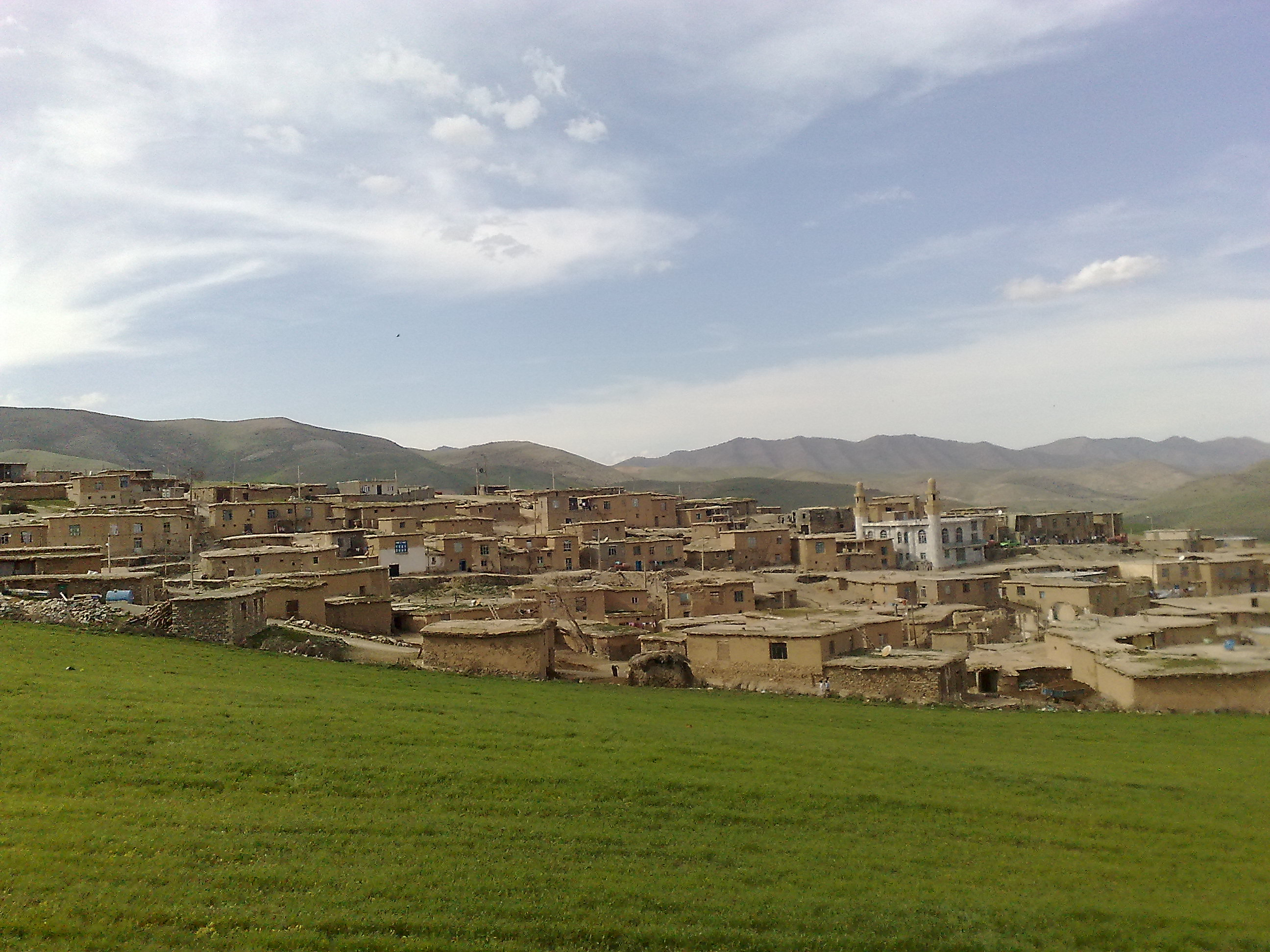 east of Masyar Shekh